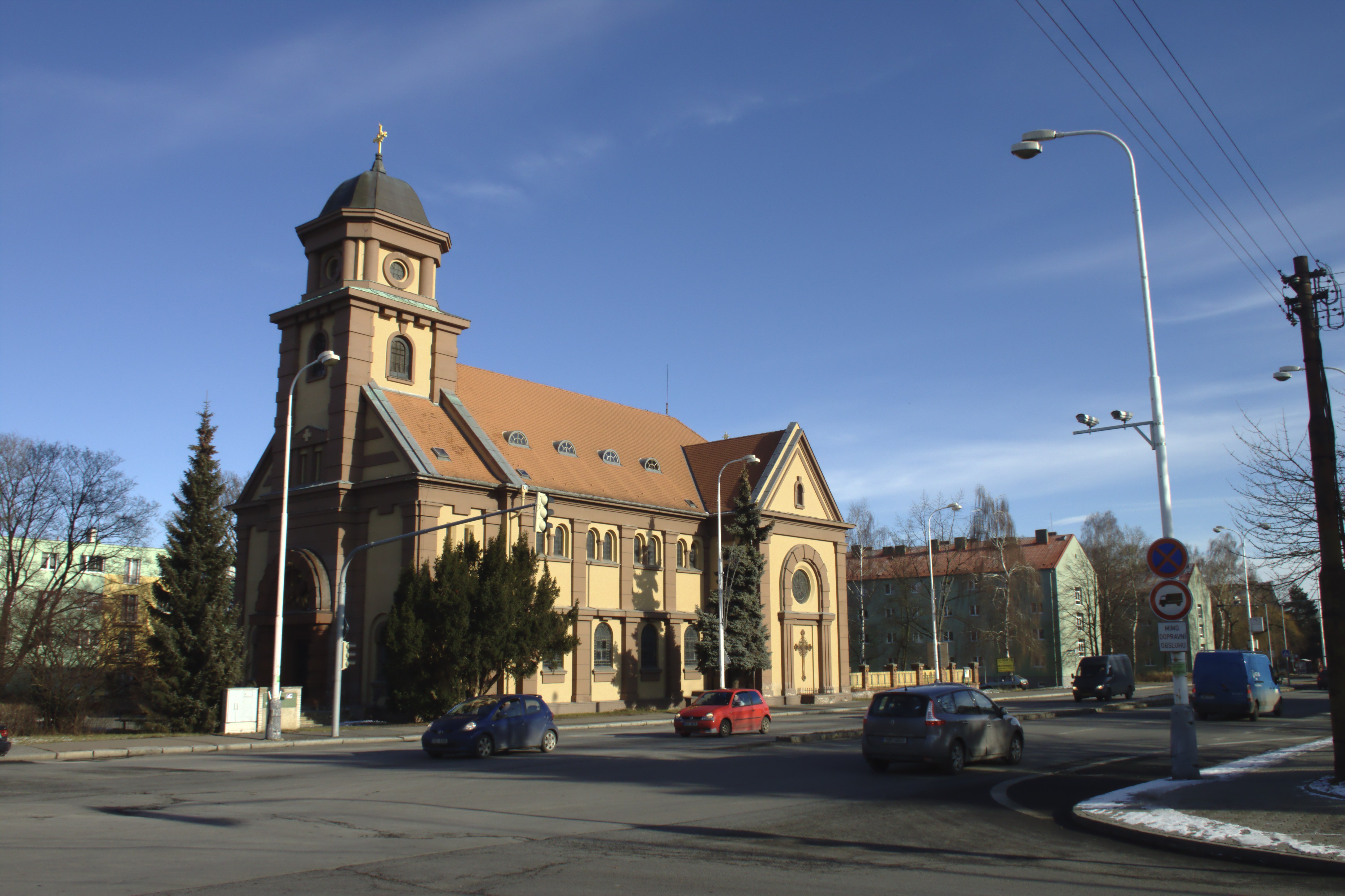 St. Václav (Wenceslaus) Church in Kladno-Rozdělov, CZ